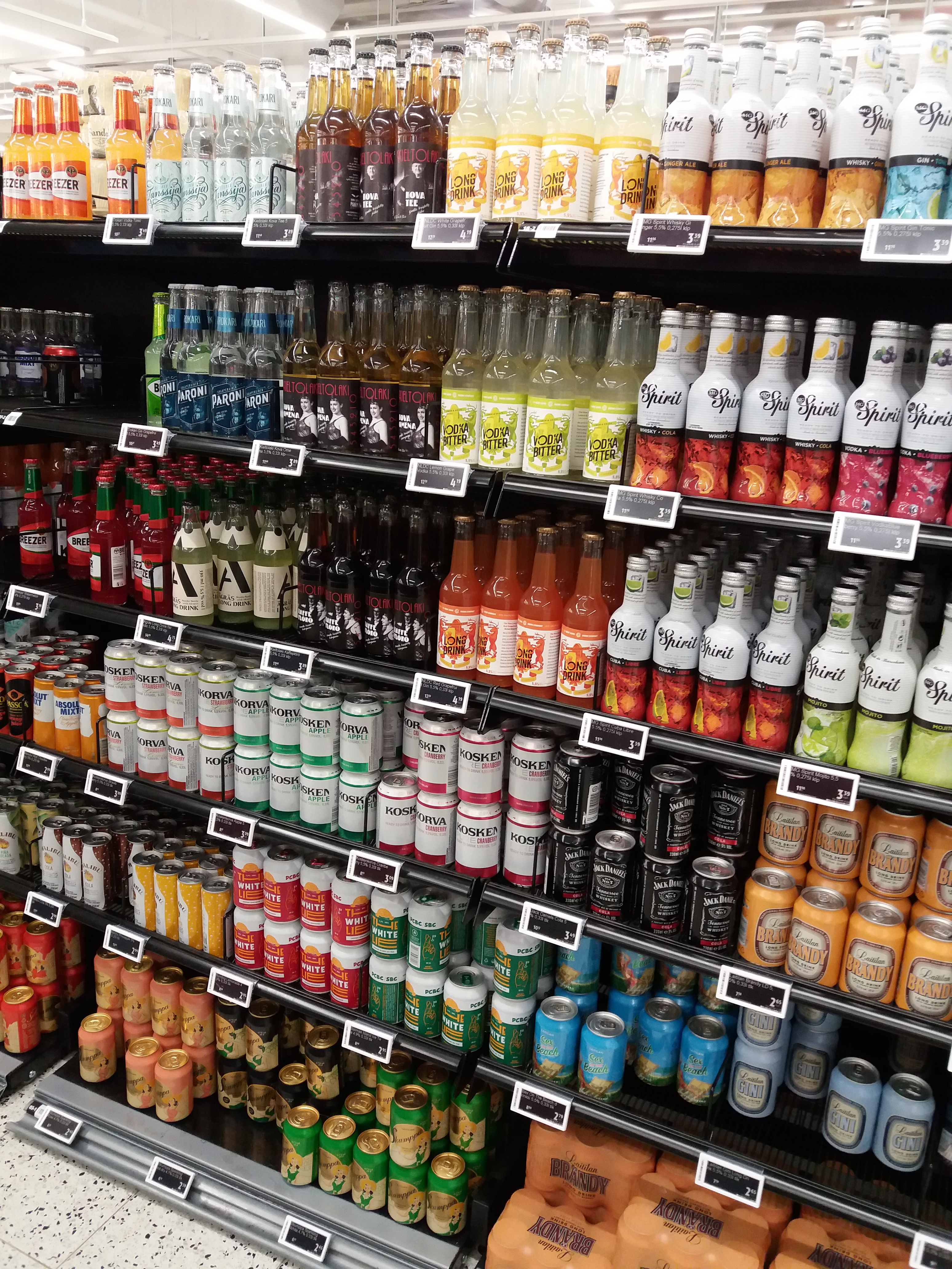 "Ready to drink" -cocktails for sale in K-Citymarket in Helsinki